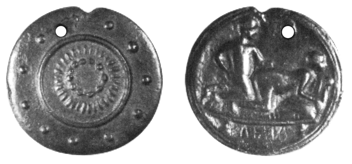 A locket found in Thailen, Saarland, Germany. An expertise by the institute for ancient history of the Saarland University from 1978 identifies it as part of a roman lamp, yet very similar to a so-called spintria, dating back to the 3rd quarter of the 3rd century AD. An earlier expertise from the late sixties stated the locket was a spintria from the 2nd century AD.